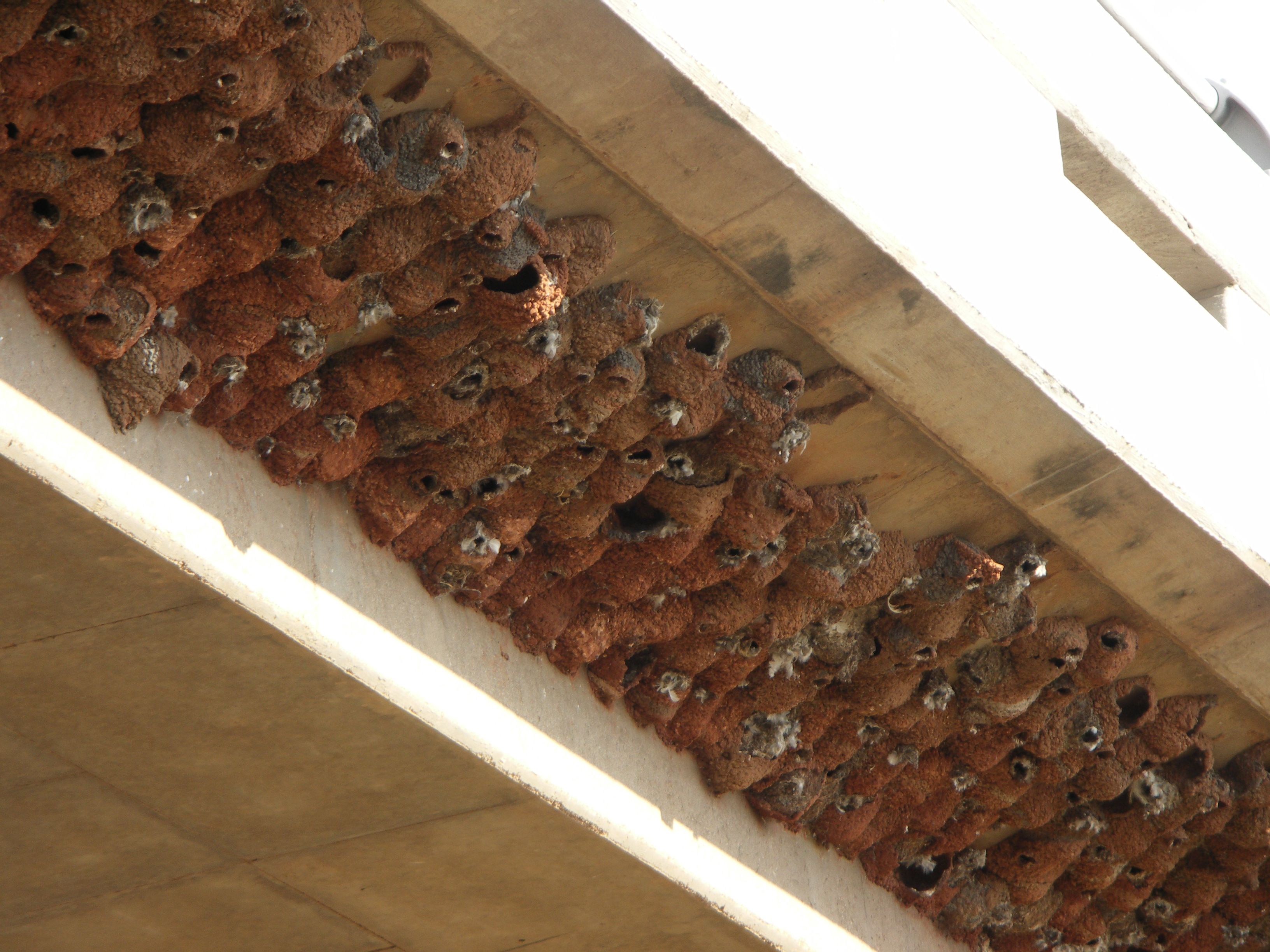 Nests of Hirundo spilodera, the South African Swallow, under a bridge in Mpumalanga, South Africa